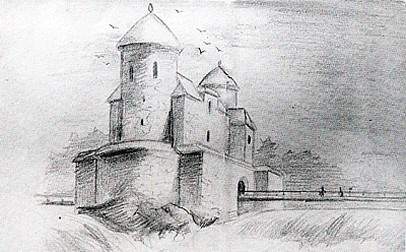 Castle of Kajaani